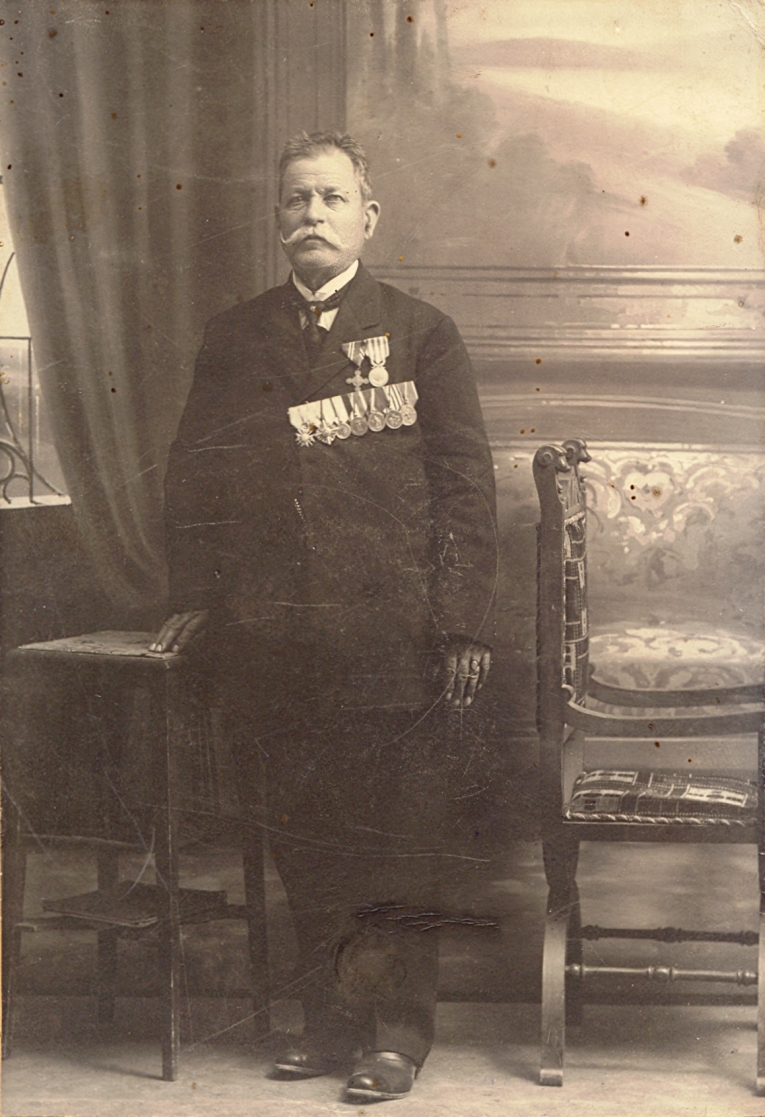 Bulgarian revolutionaire Eftim Filipovich